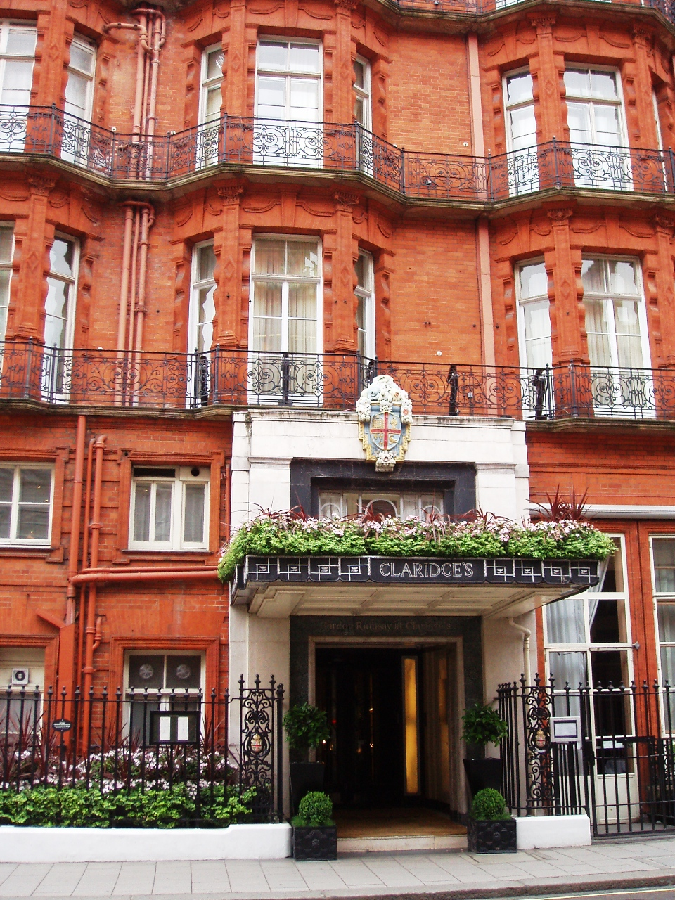 Gordon Ramsay at Claridge's, Mayfair, London W1